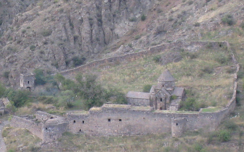 The 10th century Armenian monastery of Gndevank in Armenia.